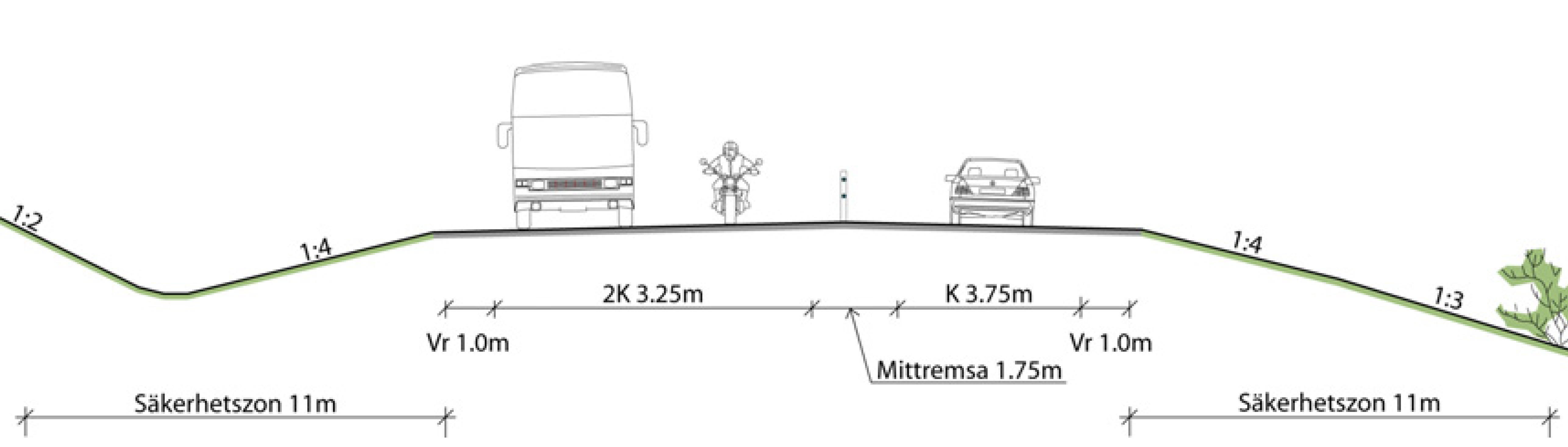 Type-section sketch of Swedish 2+1 highway